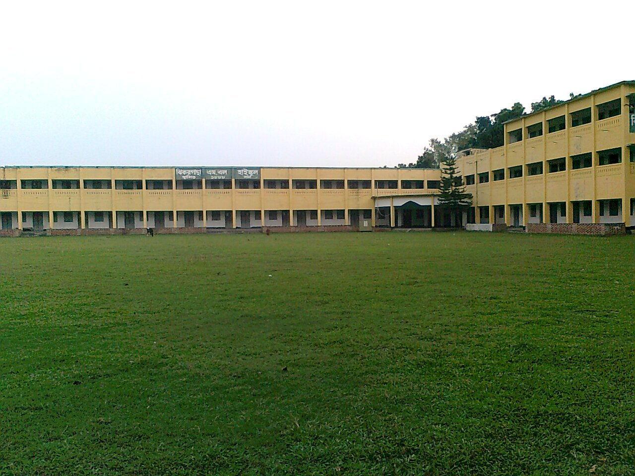 Full L shape